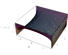 This image depicts the Scherk surface given by the graph of "u"("x", "y") = log ( cos("x") / cos("y") ) for "x" and "y" between -"π"/2 and "π"/2. The image was created by User:Sullivan.t.j using Wolfram Mathematica 5.0, and is released to the public domain